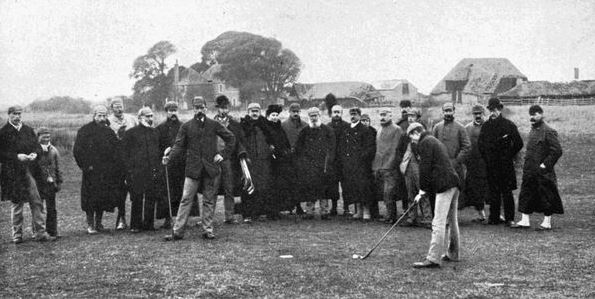 Scottish professional golfers Douglas Rolland (watching with club in hand) and Archie Simpson (driving), circa 1894. Location of match unknown.